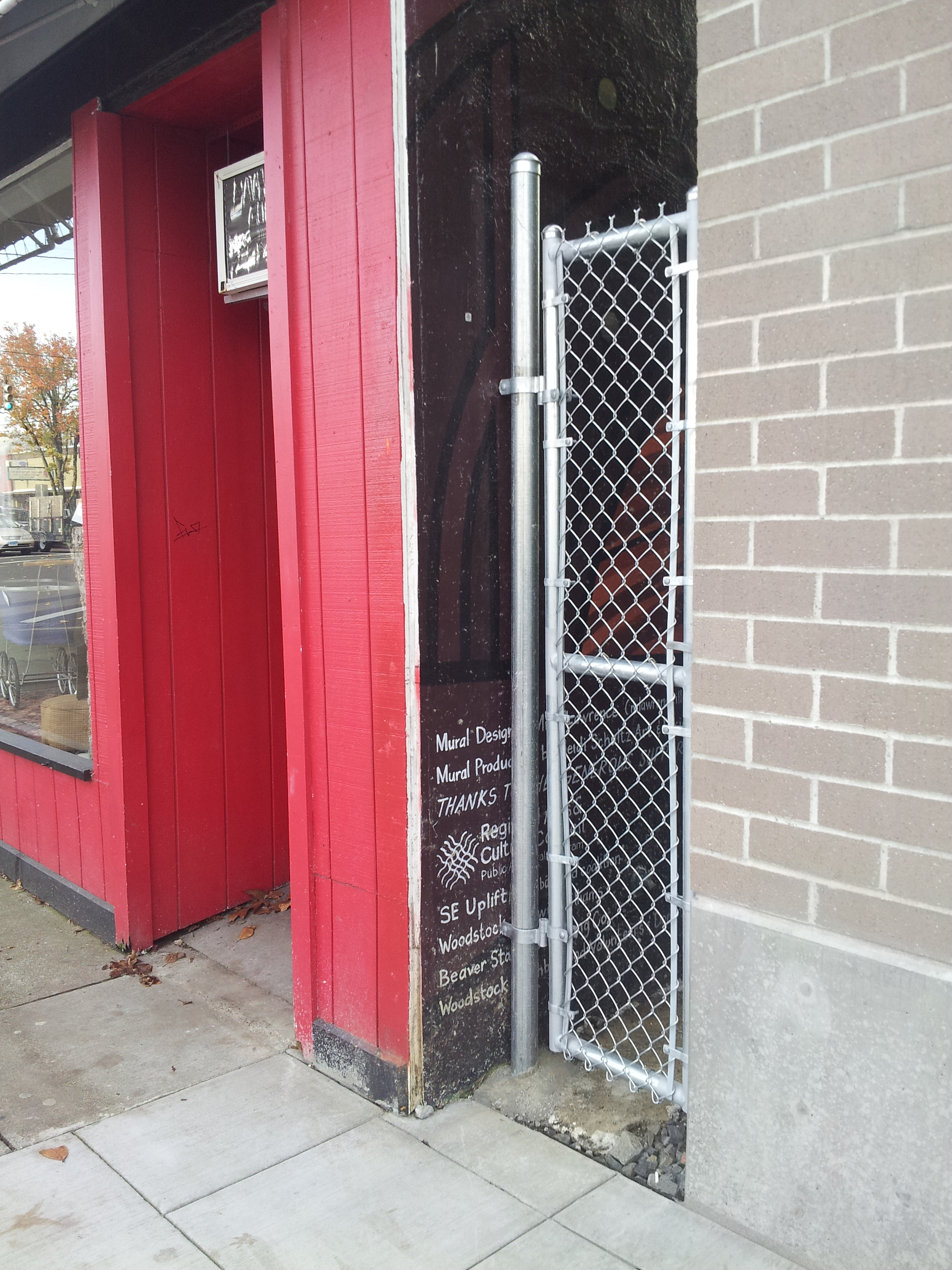 The original Woodstock Mural, covered by the construction of a New Seasons building, in 2015